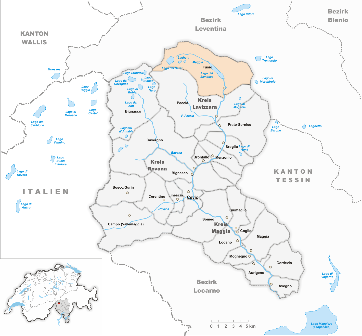 Municipality Fusio